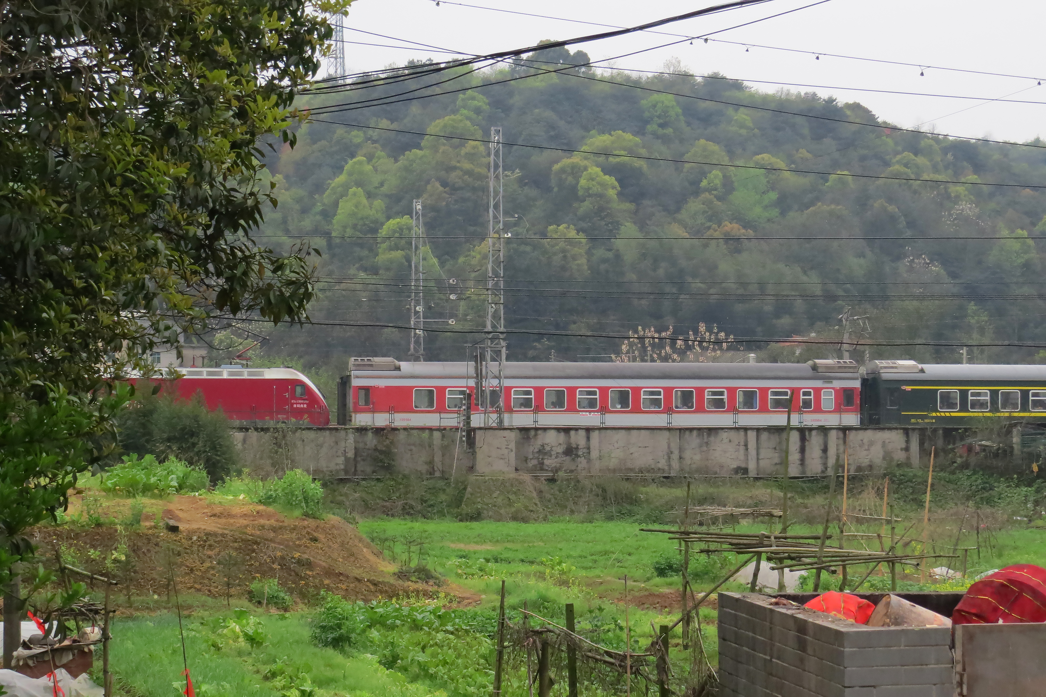 Hauled by HXD1D-0020.